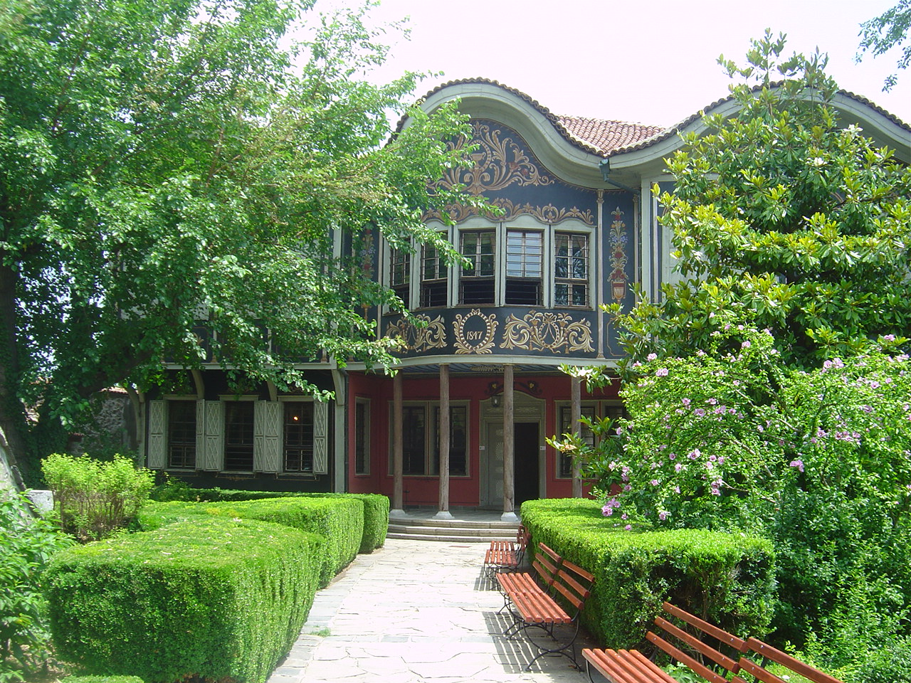 Plovdid museum